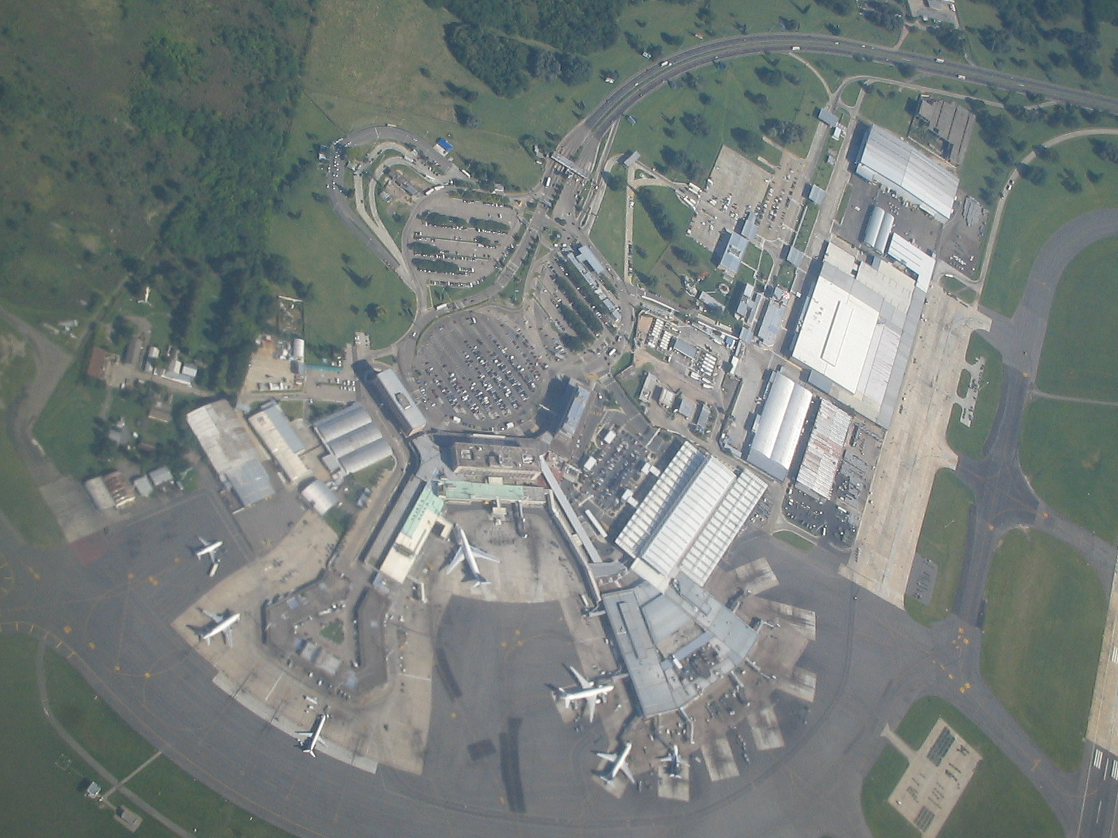 Buenos Aires Ministro Pistarini Airport, take from a LAN Argentina flight